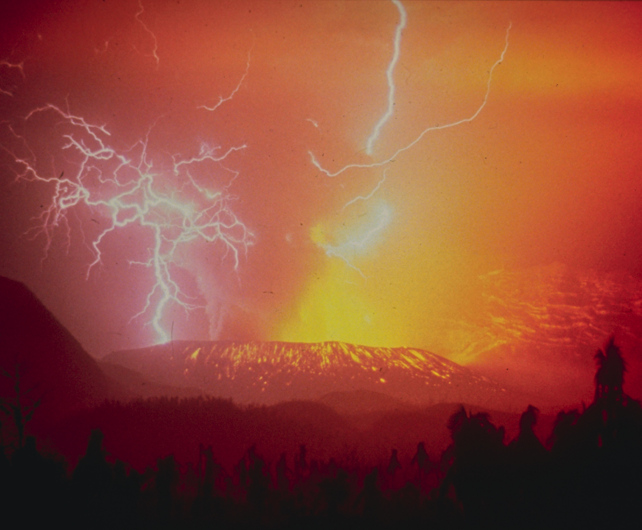 United States Geological Survey photo of 1982 eruption of Galungung (with lightning strikes). Cropped. This stratovolcano with a lava dome is located in western Java. Its first eruption in 1822 produced a 22-km-long mudflow that killed 4,000 people. The second eruption in 1894 caused extensive property loss. The slide depicts a spectacular view of lightning strikes during a third eruption on December 3, 1982, which resulted in 68 deaths. A fourth eruption occurred in 1984. Source Caption: Galunggung, Indonesia;07.25 S 108.05 E;2,168 m elevation